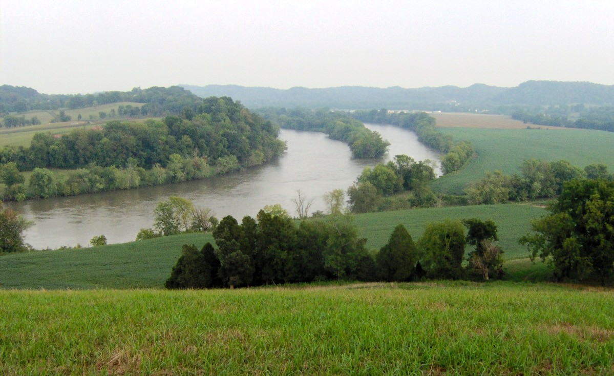 The French Broad River in Boyd's Creek, Tennessee (near Sevierville), viewed from Brabson Cemetery. The Brabson's Ferry Plantation once included the lands at the lower right.